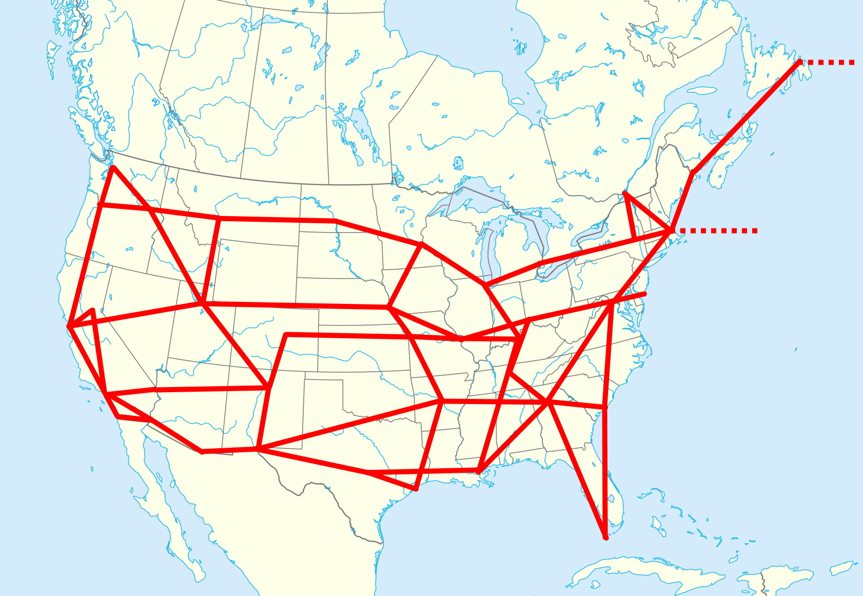 The Net of Longitude, USA and NE Canada 1896. Each line segment shows a determination of longitude difference between two locations. Dotted lines indicate transatlantic cable connections to Europe. Base map is File:North America map with states and provinces.svg. Longitude data from Table presented in Schott, Charles A. (1897). "The telegraphic longitude net of the United States and its connection with that of Europe, as developed by the Coast and Geodetic Survey between 1866 and 1896". The Astronomical Journal 18: 25-28.